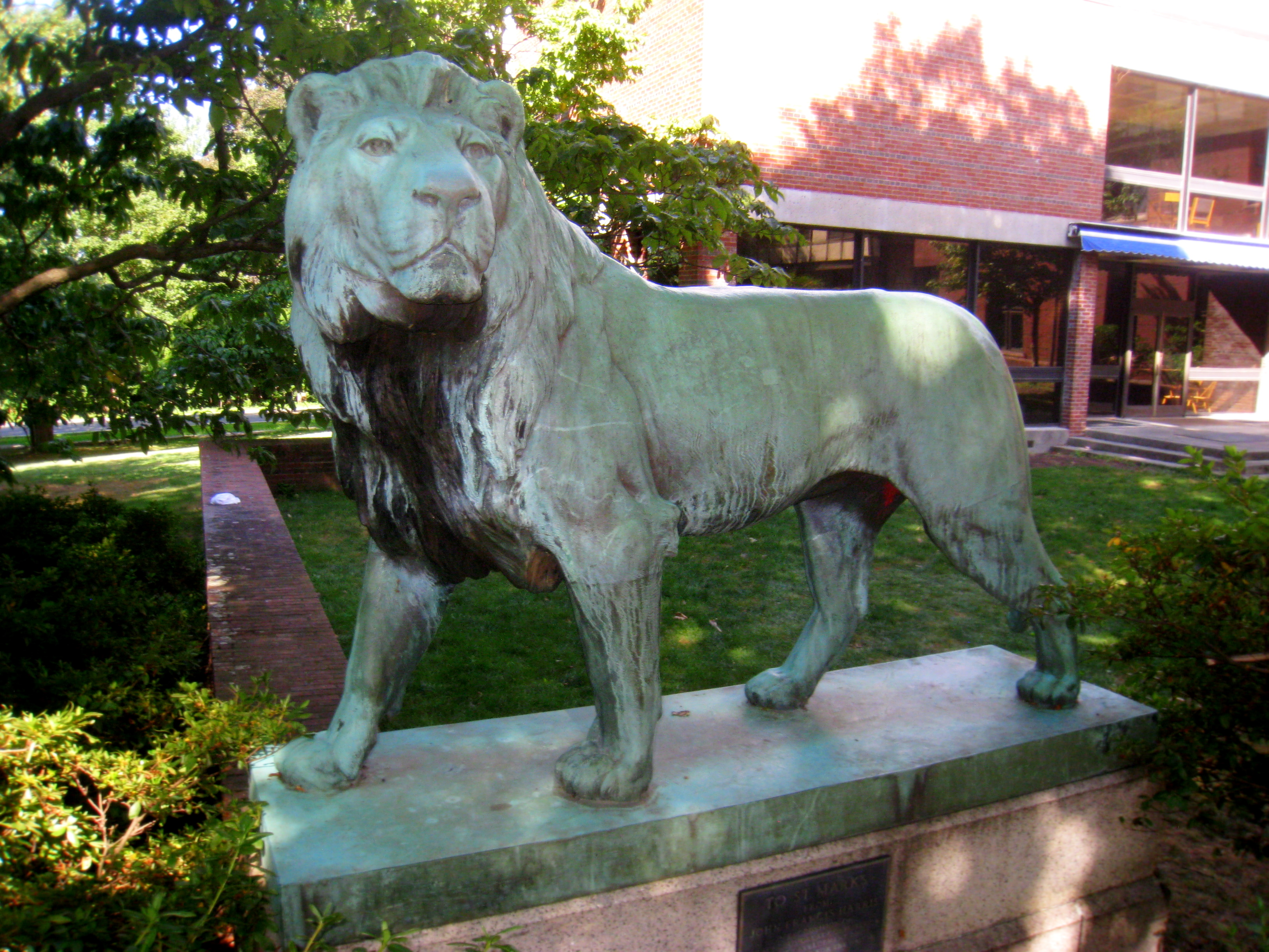 Lion sculpture, St. Mark's School, Southborough, Massachusetts, USA. Sculptor: Georges Gardet (1863-1939).